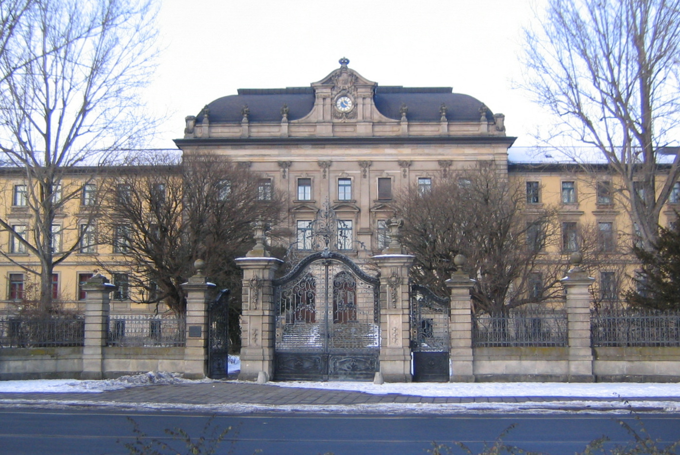 Entrance and Centralpart of Marggraefin-Wilhelmine-Gymnasium in Bayreuth